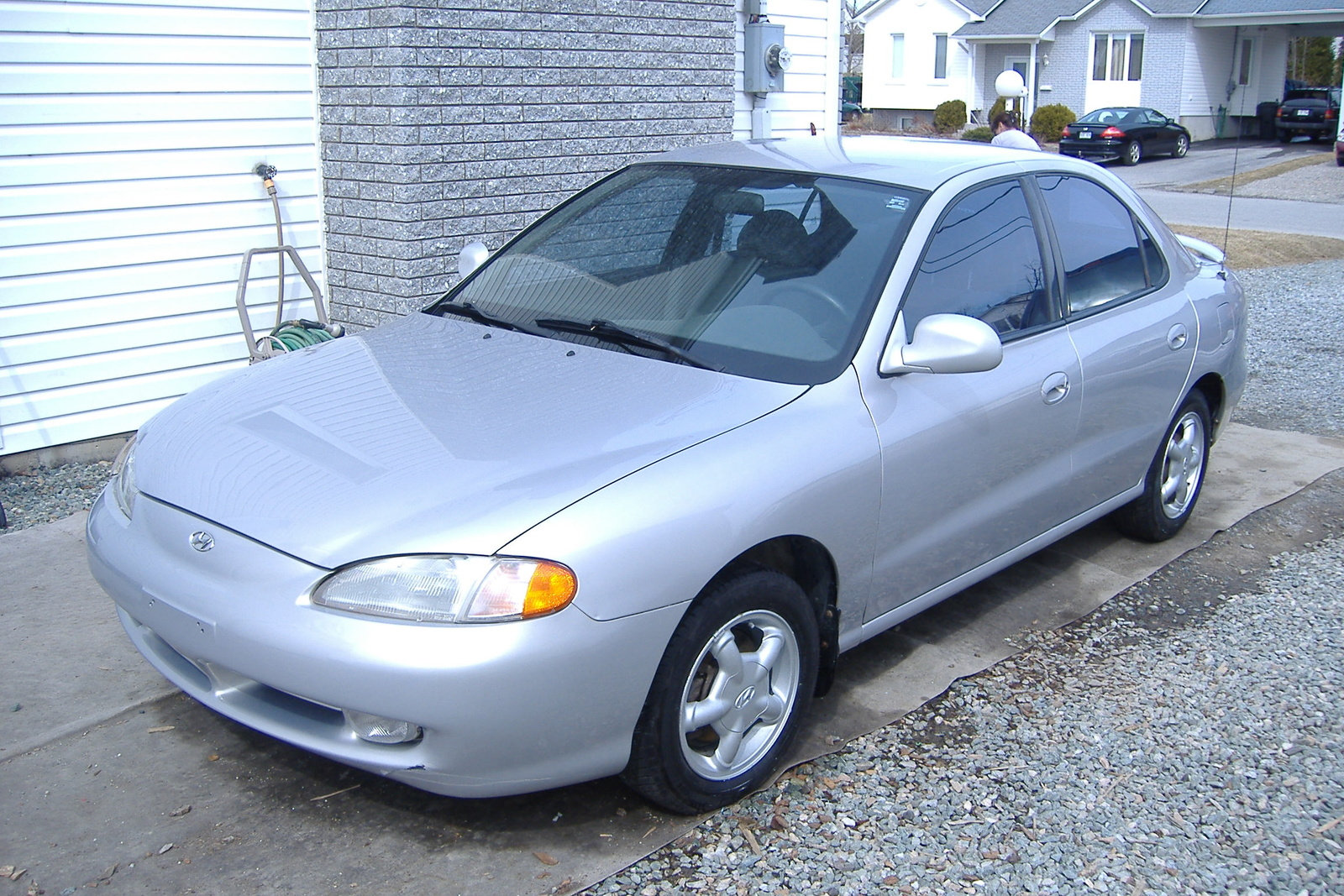 hyundai elantra